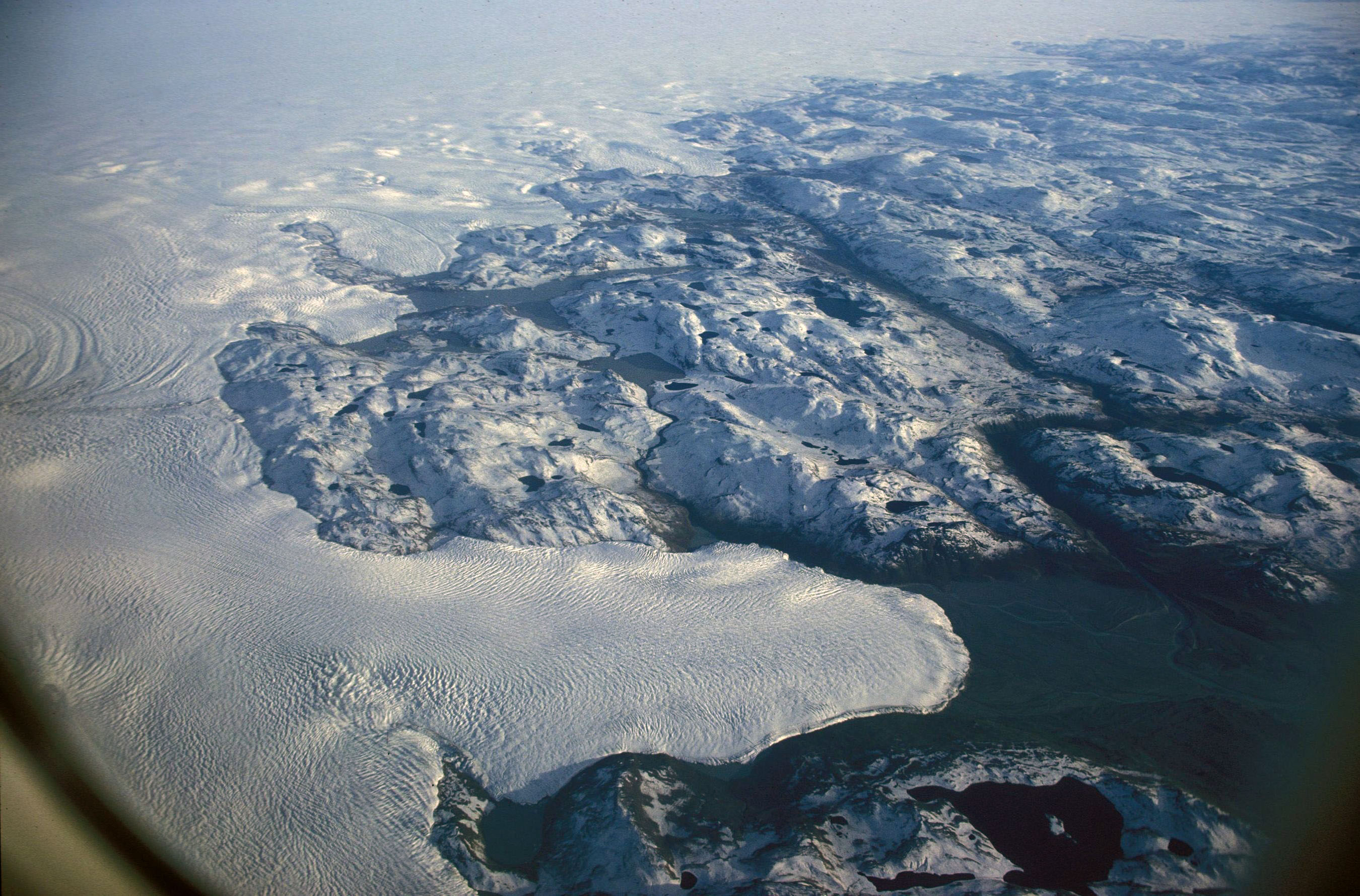 Margin of the Greenland ice sheet (view from plane)